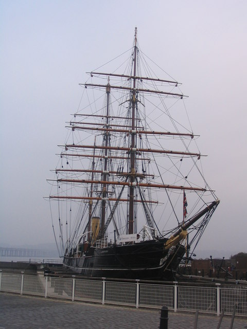 RSS Discovery Captain Robert Falcon Scott sailed the Royal Research Ship Discovery to the Antarctic in 1901, returning in 1904 spending two winters in the ice.